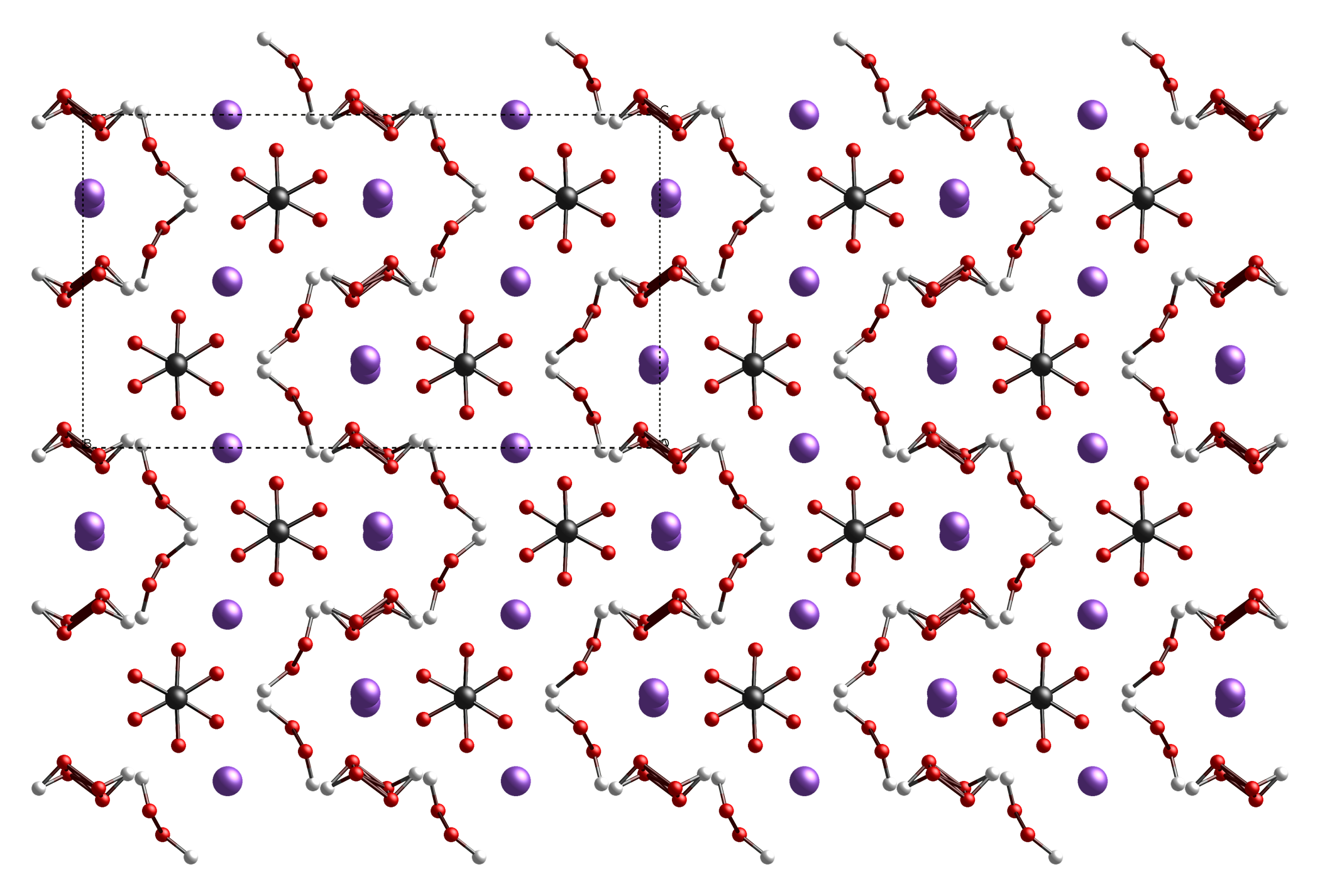 Ball-and-stick model of part of the crystal structure of sodium percarbonate, Na2[CO3]·1.5H2O2. Colour code: Sodium, Na: purple Carbon, C: grey-black Oxygen, O: red Hydrogen, H: white Crystal structure from Acta Cryst. (2003) B59, 596–605. Model constructed and image generated in CrystalMaker 8.2.